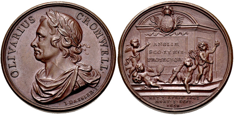 COMMONWEALTH. Oliver Cromwell. Lord Protector, 1653-1658. Æ Medal (38mm, 29.51 g, 12h). The Kings and Queens of England. By J. Dassier. Struck 1731. OLIVARIUS CROMWELL, laureate, draped, and cuirassed bust left; I · DASSIER · F · / Memorial set with helmeted coat-of-arms atop crossed oak and palm branches, inscribed ANLIÆ/ SCO · ET HIB ·/ PROTECTOR; before, four infant genii: one standing right and pointing to the inscription; one reclining left, resting head on hand and arm on skull, holding a mirror; one seated left, head right, holding bundle of wands and wreath (representing the unanimity of the kingdom); one standing right, head left, in guise of Hercules, resting club on ground and holding three apples (representing the three kingdoms); in exergue, · NAT · 3 · APRIL · 1603/ MORT · 3 · SEPT ·/ 1658. Eimer 203; MI 435/87. EF, brown surfaces.